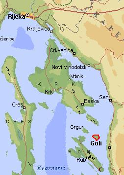 from Premission on Serbian